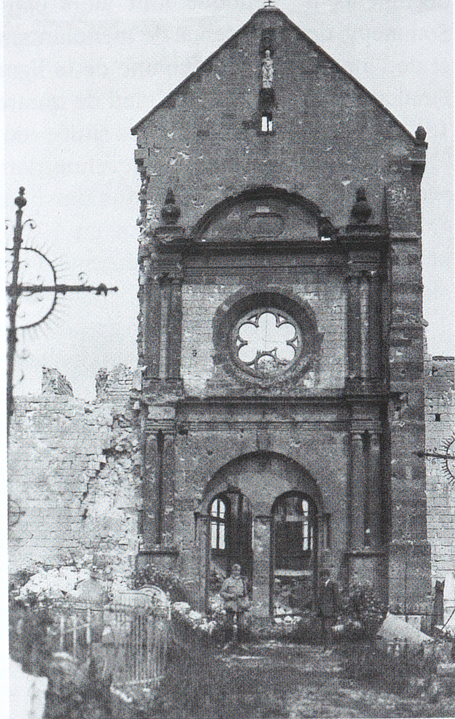 vue de Sommepy-Tahure autour de la Première Guerre mondiale.